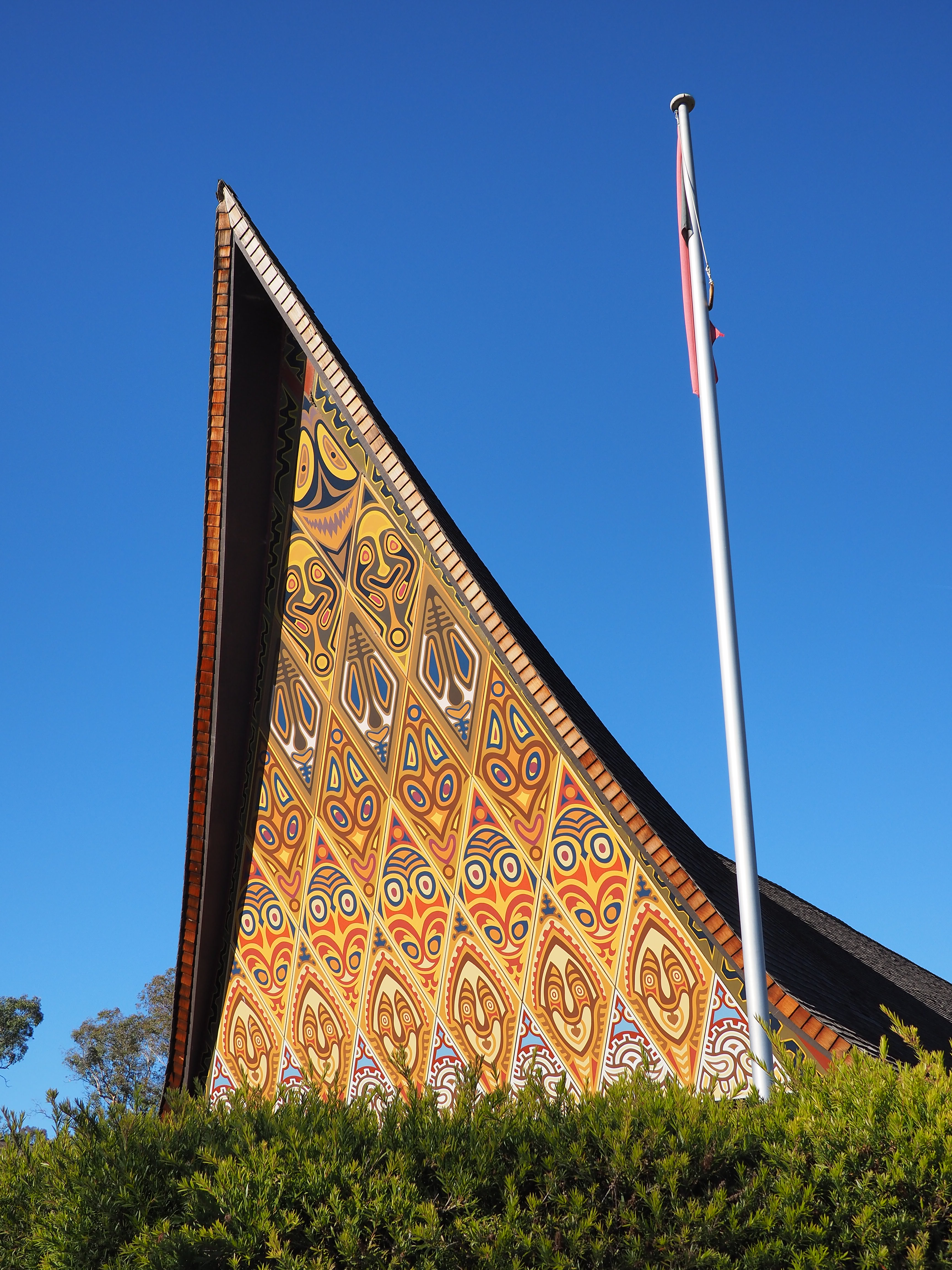 The peak of the roof of the Papua New Guinea High Commission in Canberra